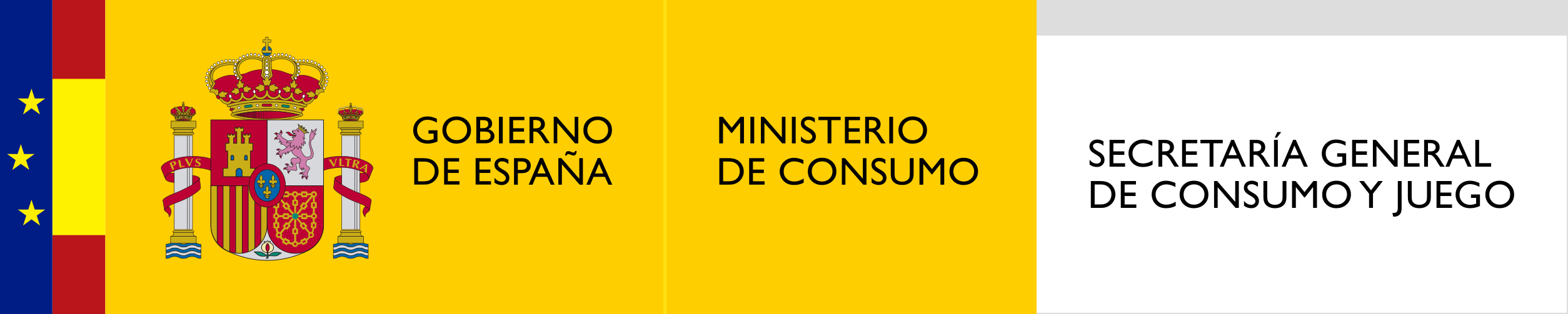 Logo of the General Secretariat for Consumer Affairs and Gambling of Spain.